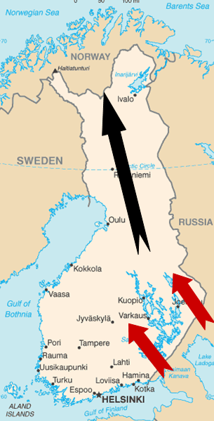 Retreating Nazi Army and Advancing Red Army in Finland, 1944, World War II